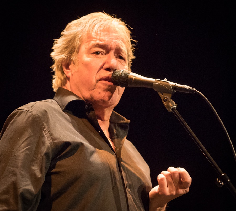 Sérgio Godinho performs with Sérgio Godinho at the stage of Cosmopolite. The concert took place on 17. February 2017 in Oslo. Lineup:Sérgio Godinho (vocal)Filipe Raposo (piano)António Carrilho (flute)